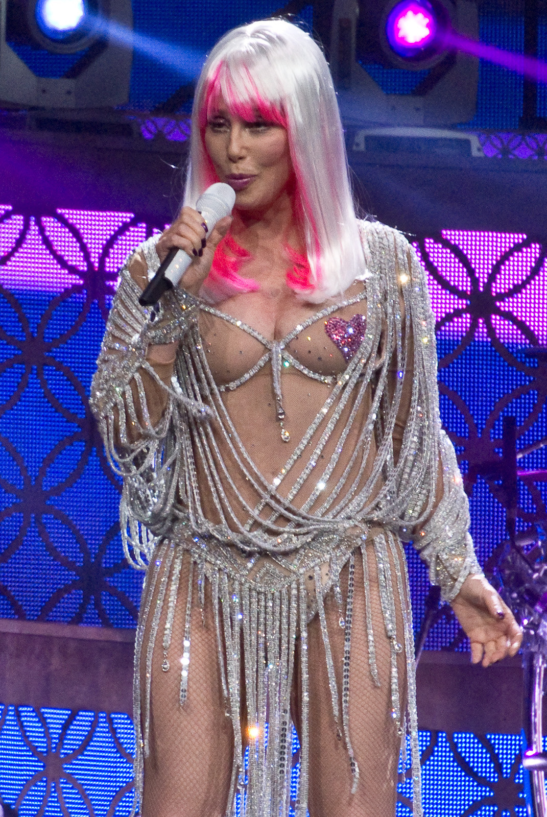 Cher performing live in concert, 2014.